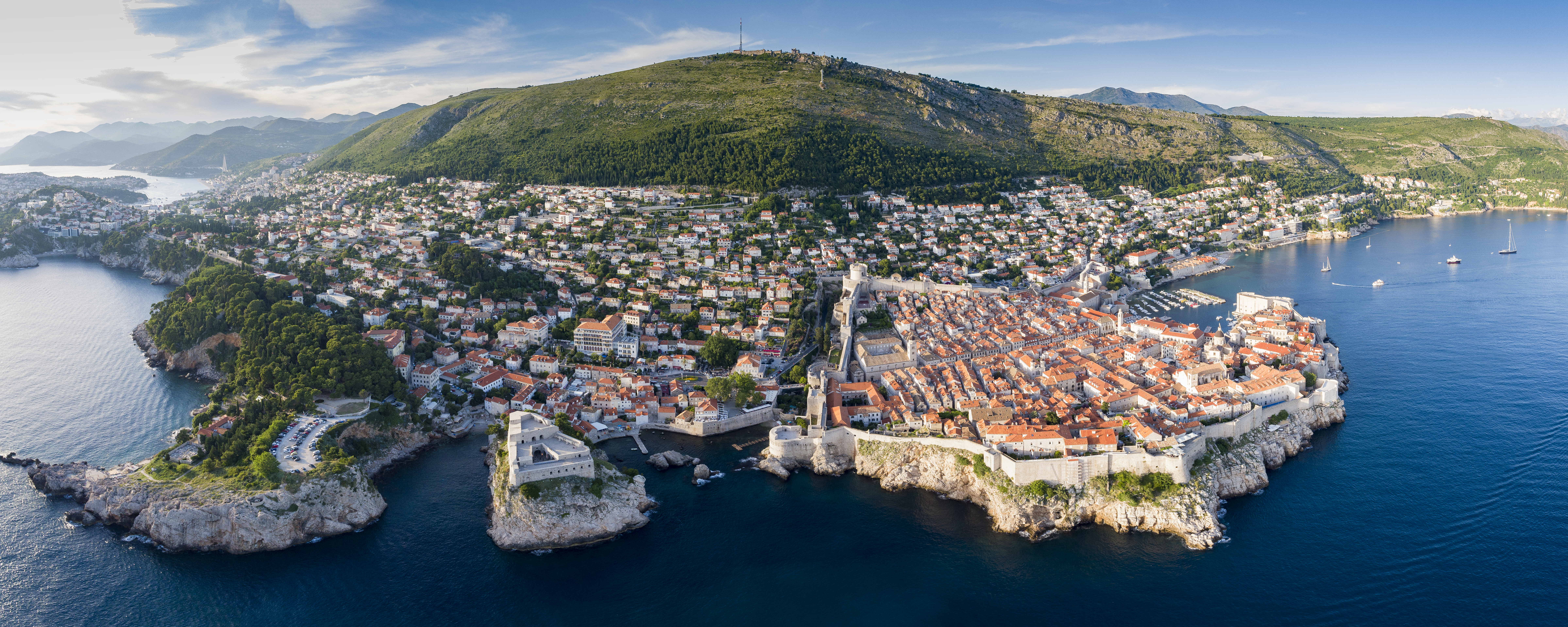 aerial panorama of dubrovnik croatia